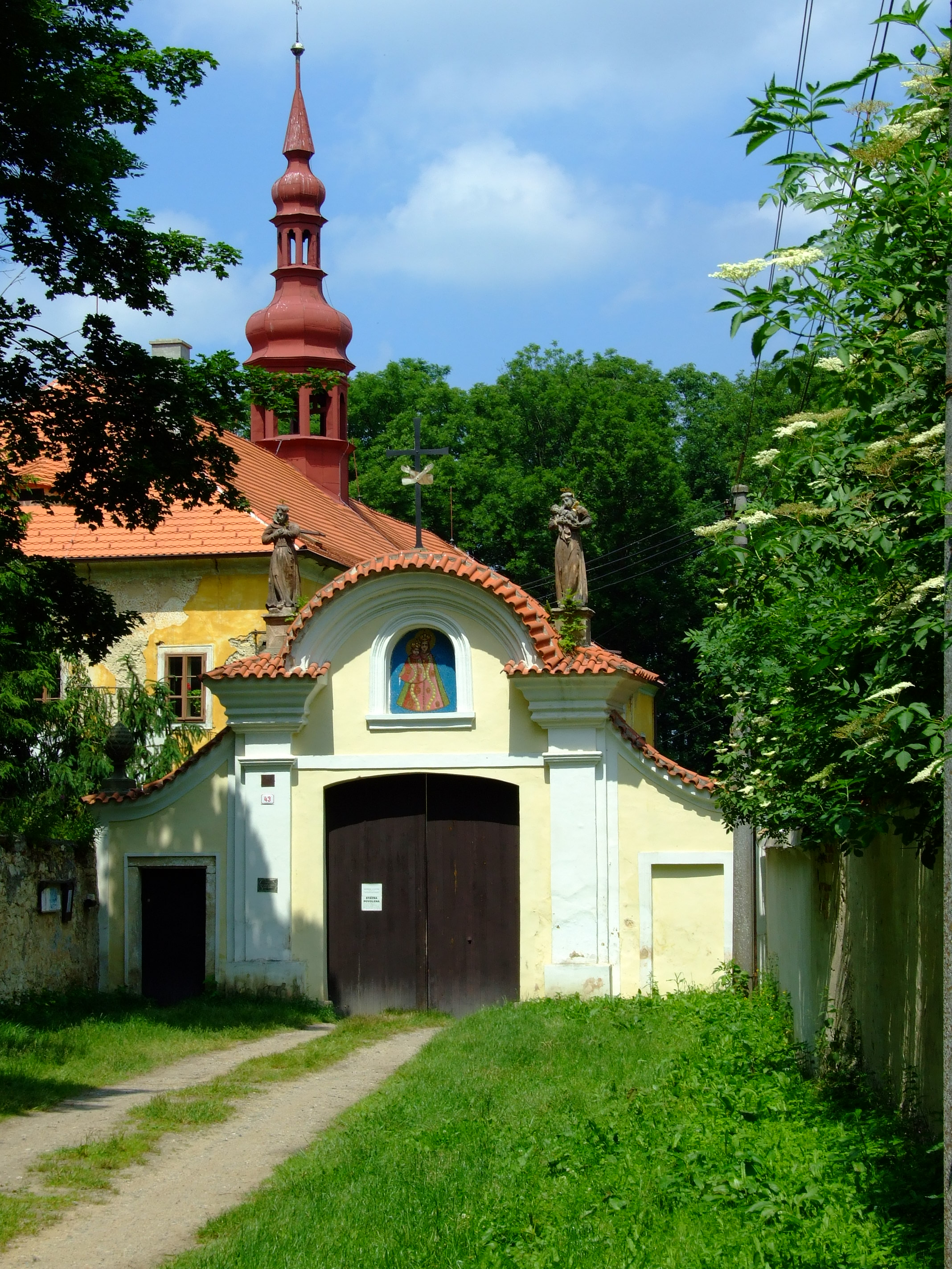 Gate of Hájek Monastery near Červený Újezd, Prague-West District, Czech Republic